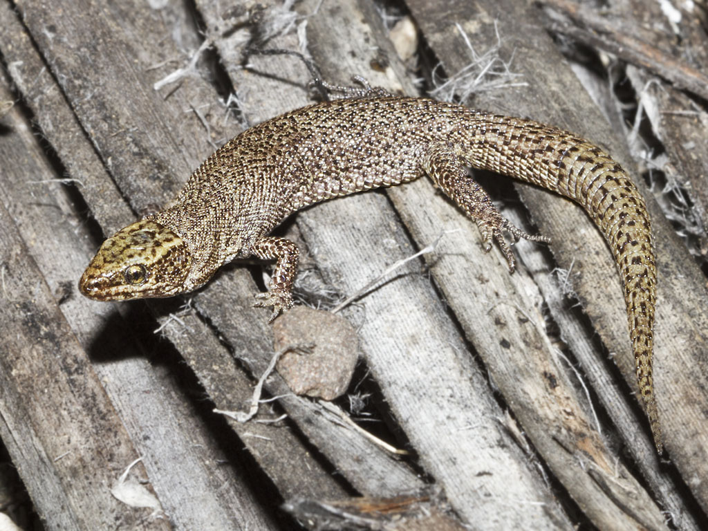 Desert Yucca Night Lizard, Xantusia v. vigilis. Found associated with Joshua Trees and Yuccas, this lizard seldom ventures out from cover during daylight. Santa Barbara Co., CA, USA. April 26.